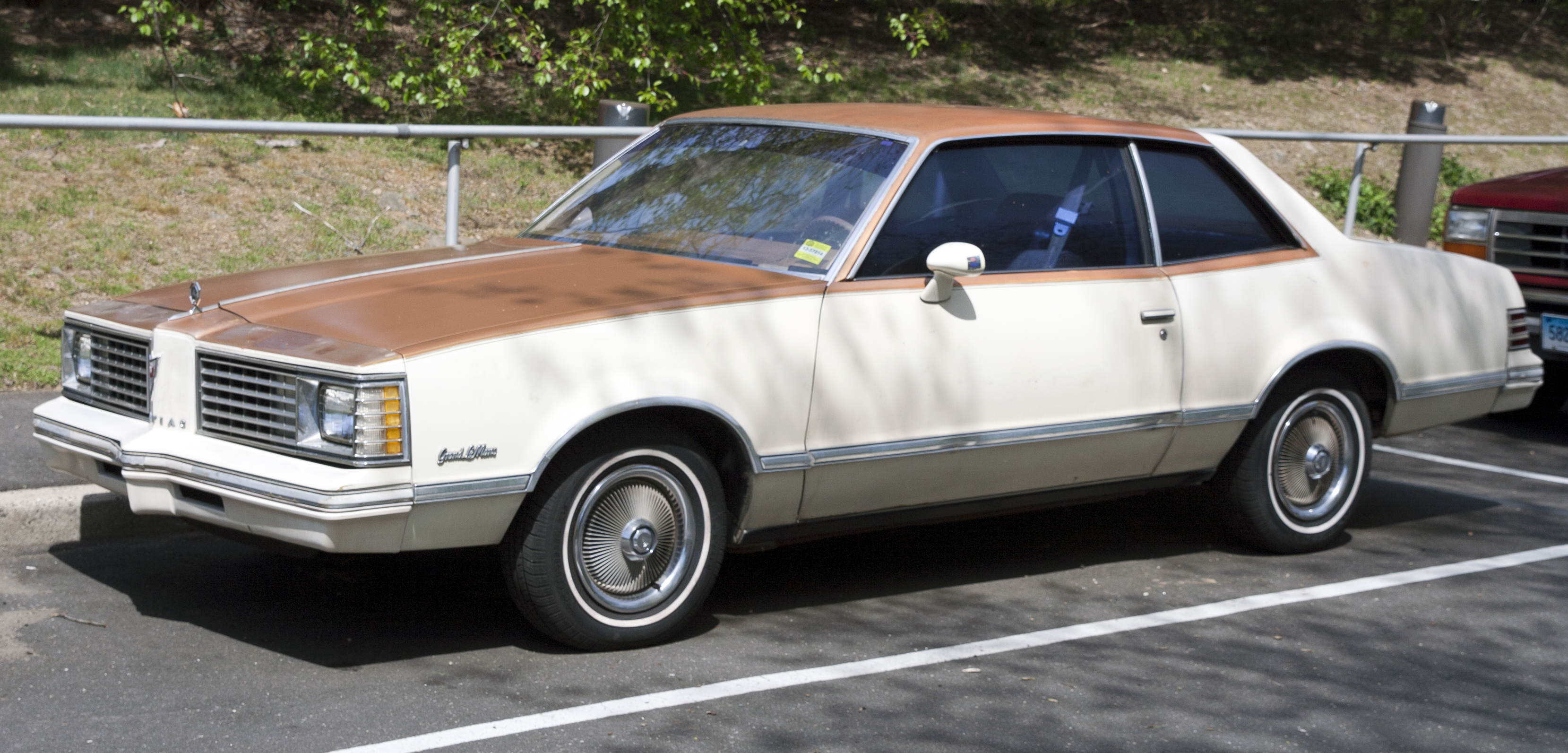 1980 Pontiac Grand LeMans two-door, one of only 9110 built in 1980. This particular example, fitted with a 4-barrel 301 ci V8 with 140hp, was built in Oshawa, Ontario, and would have cost $5,634 new not counting any additional equipment.